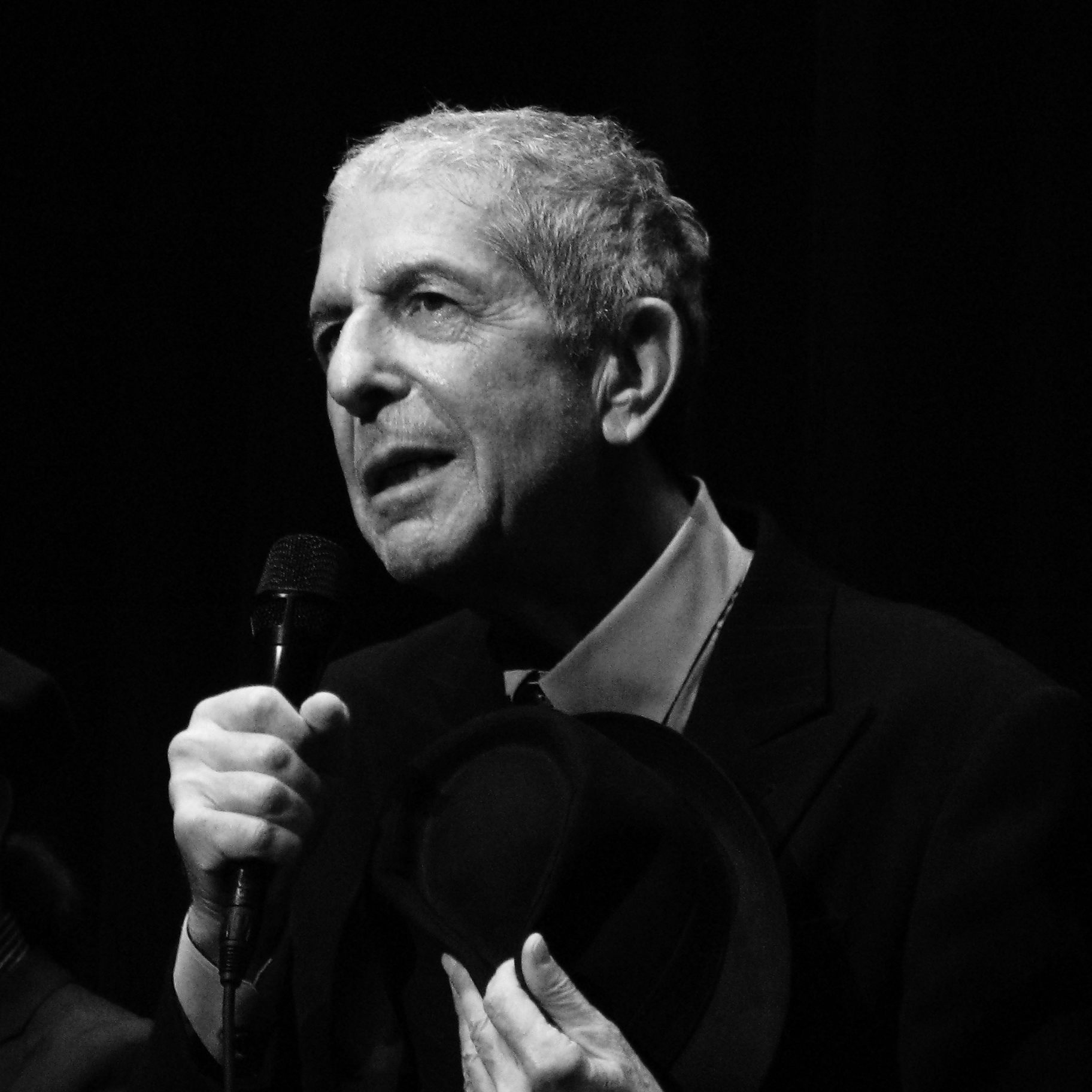 Leonard Cohen, during the Geneva concert of the 2008 tour.